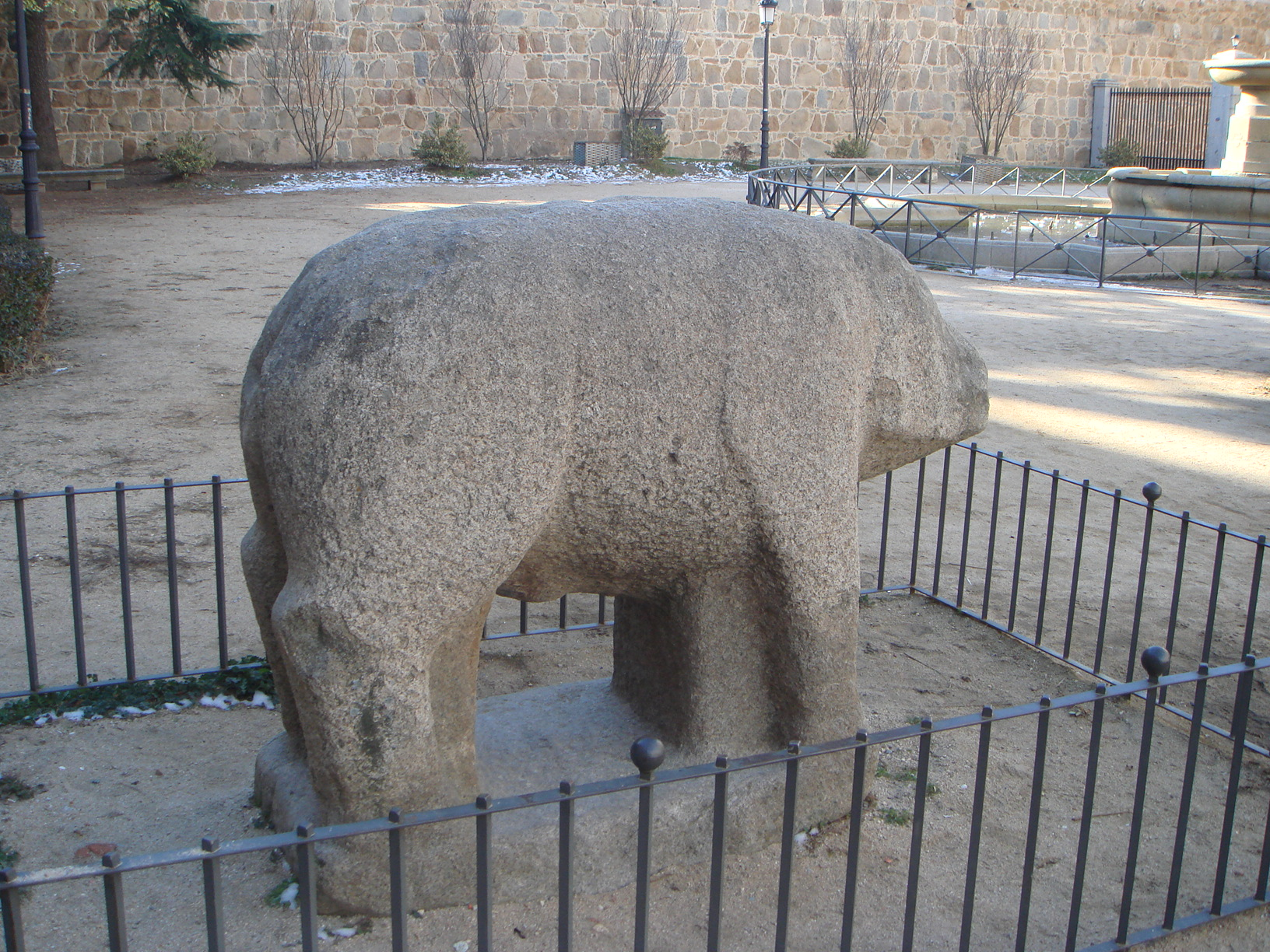 Verraco of Las Cogotas, Ávila, Spain. Vettone´s sculpture.